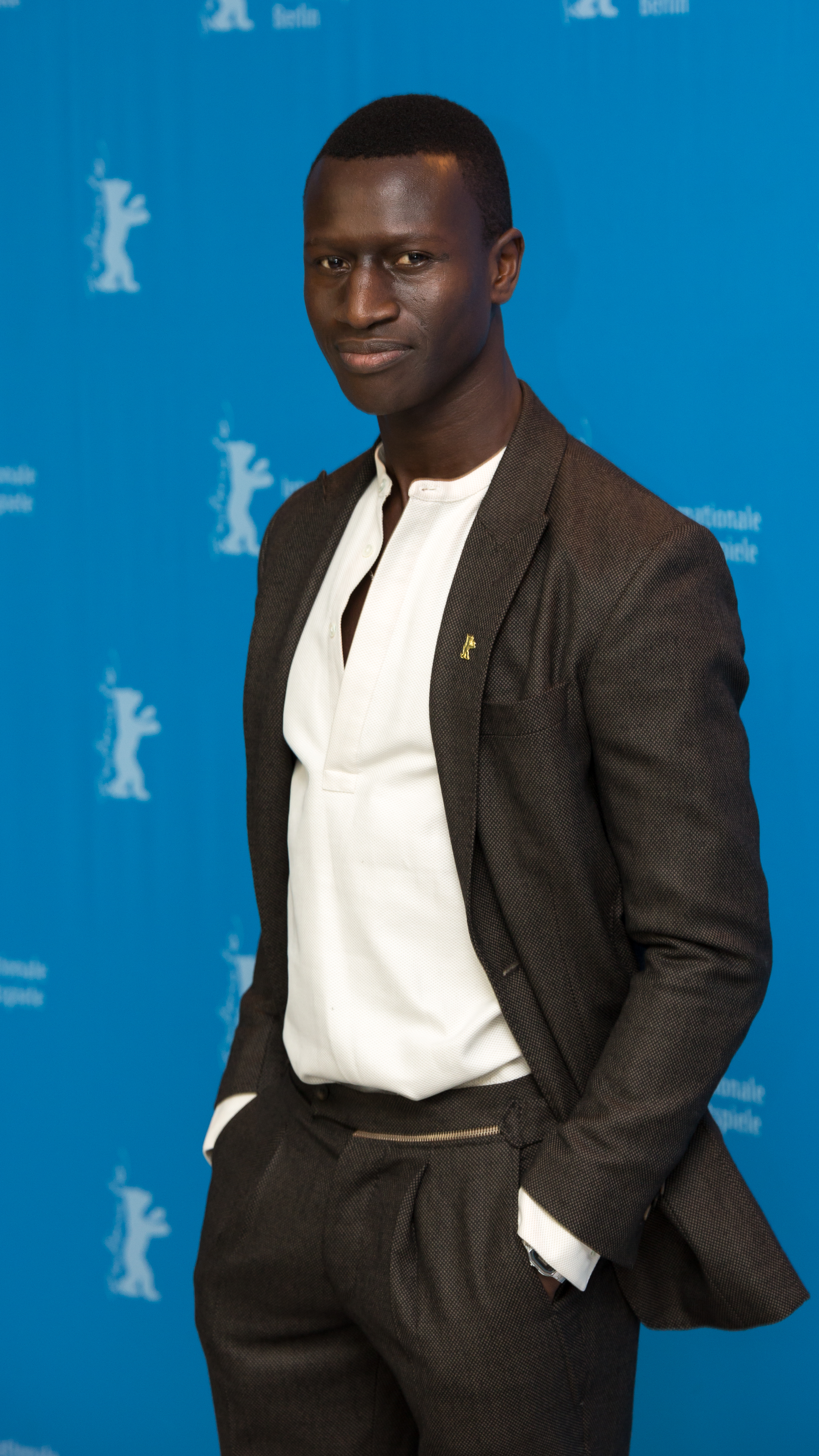 Welket Bungué presenting Joaquim at Berlinale 2017